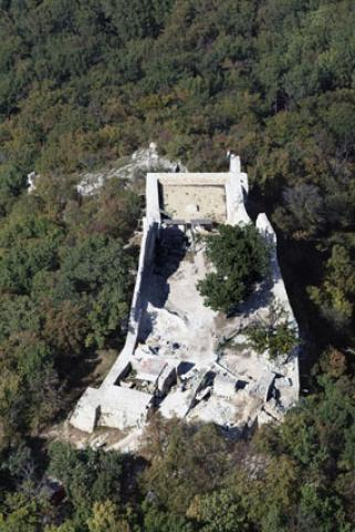 Rezi - castle, Hungary, aerialphotography